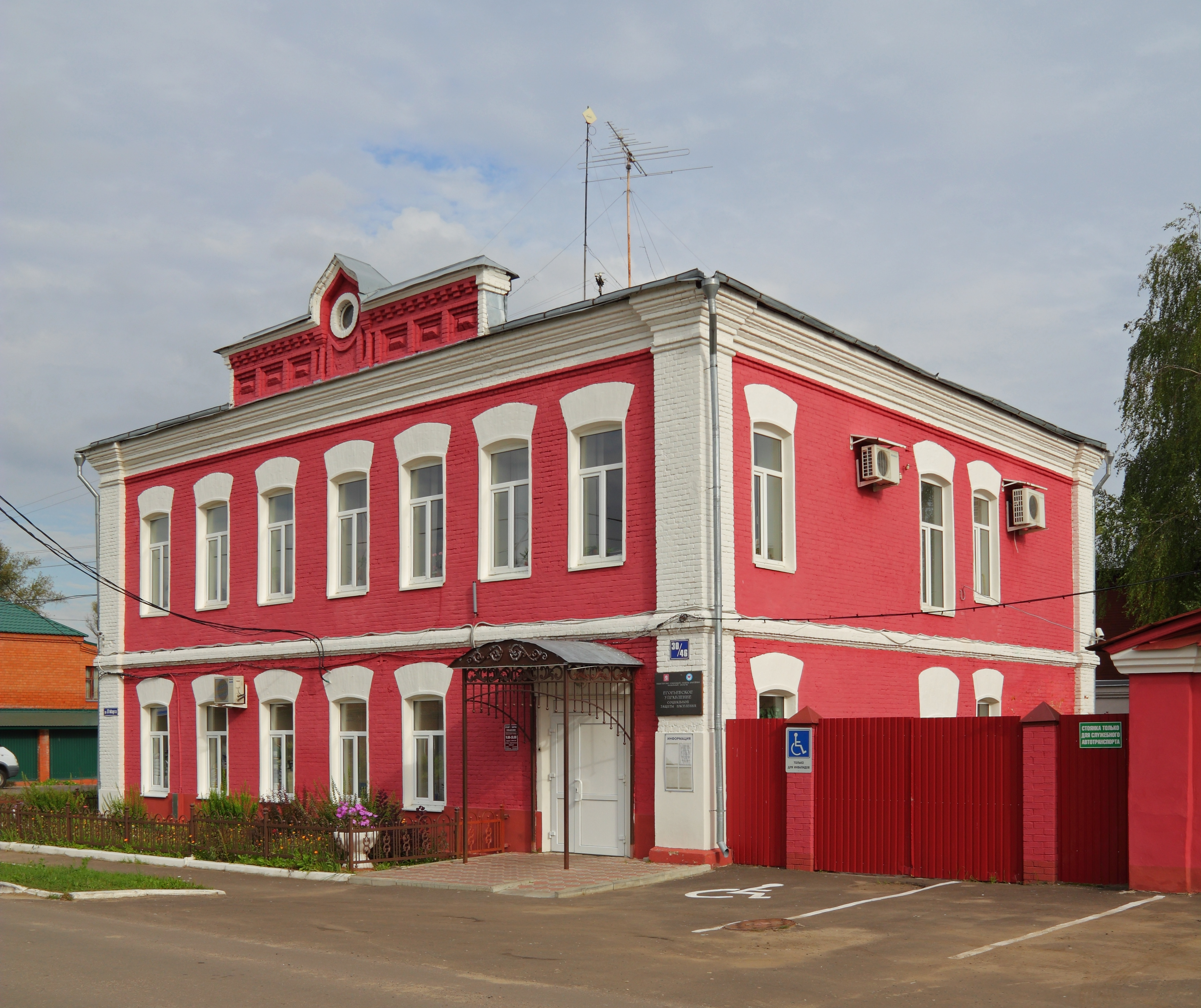 Yegorievsk, Moscow Oblast, Russia. The building of the social authority.